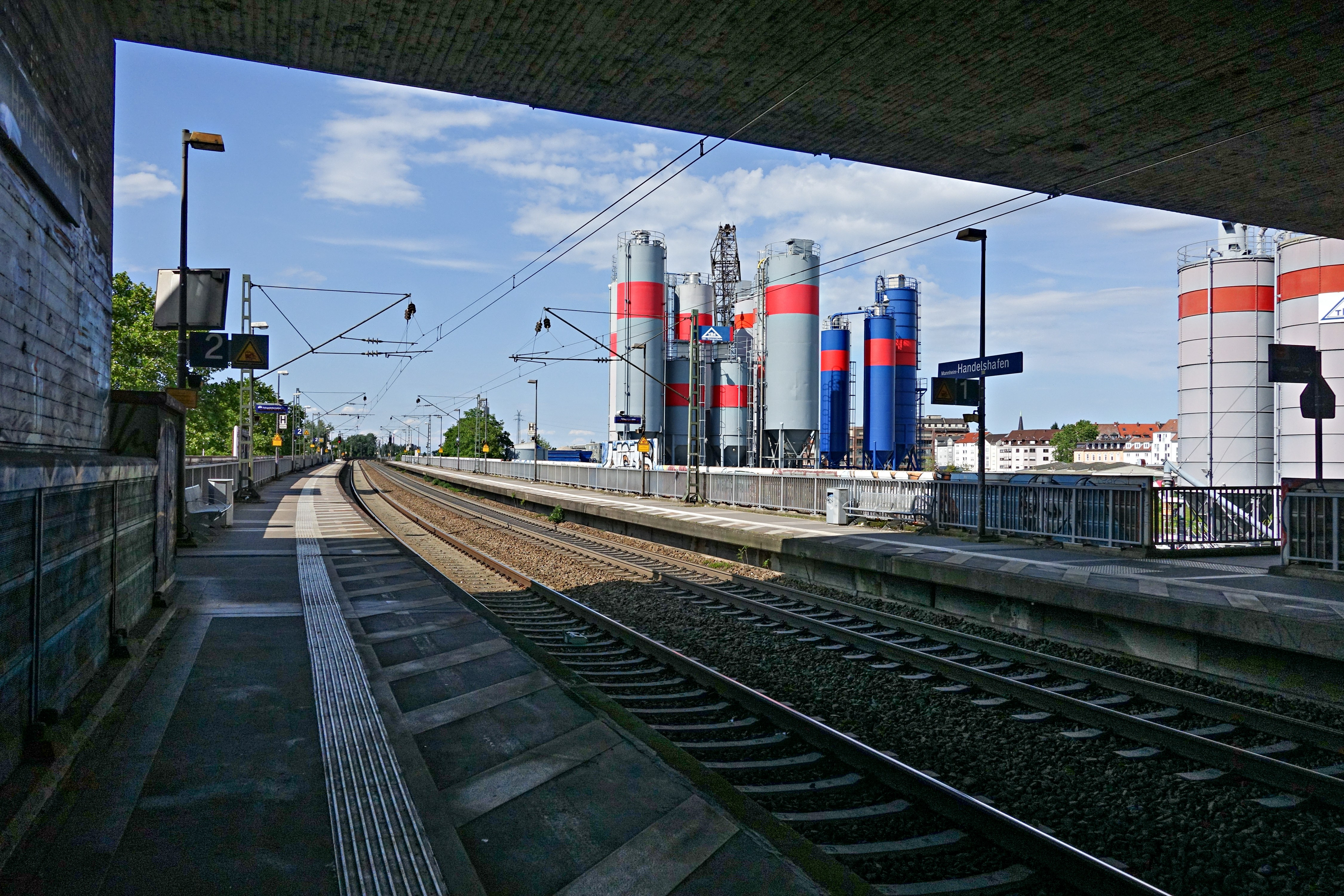 Station Mannheim-Handelshafen, Germany, platform 2, looking north